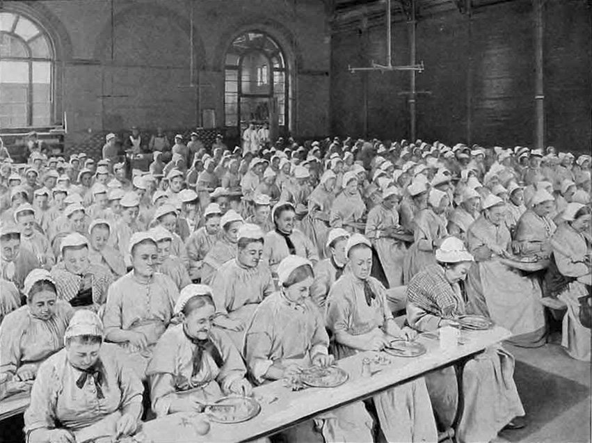 Dinner time in St Pancras Workhouse, London